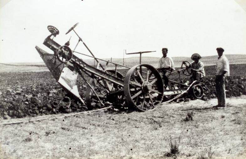 The first deep ploughing of Beit Hanan lands was done during March of 1929